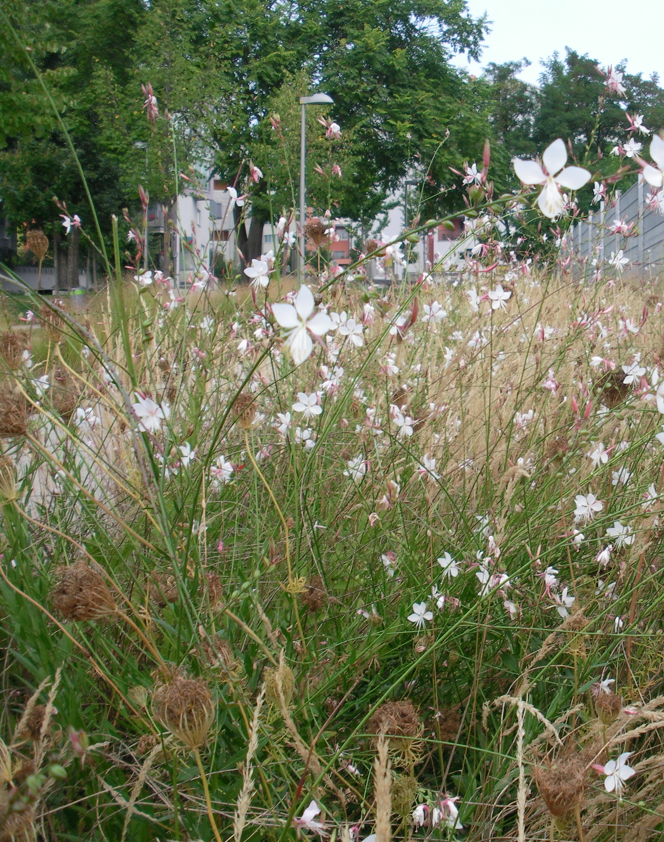 Autumn flowers in Vienna Wood.